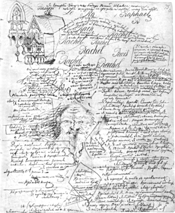 Manuscript for Fyodor Dostoyevsky's novel Demons, 1870-71.